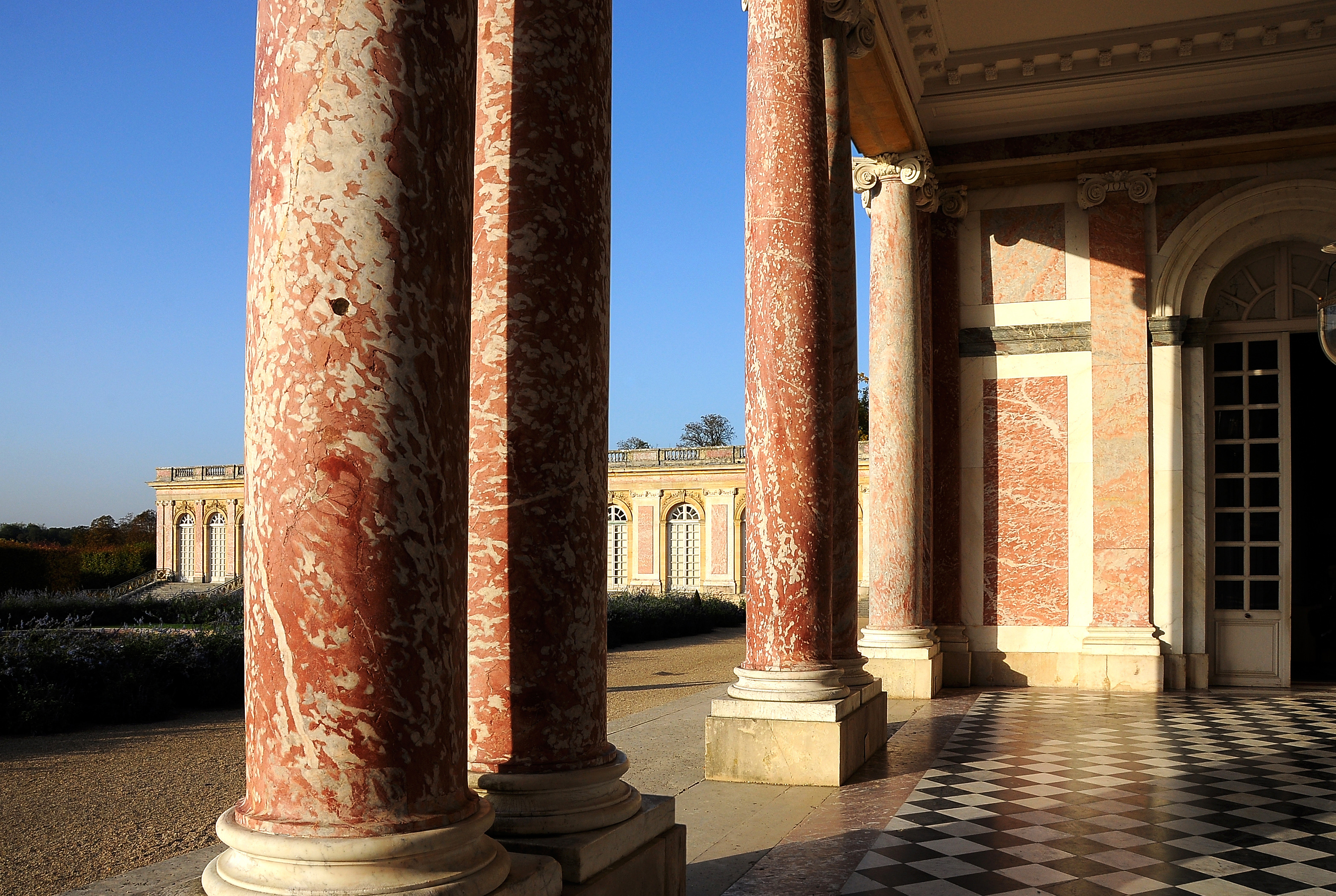 Columns in Grand Trianon at the Palace of Versailles, department of Yvelines in France.